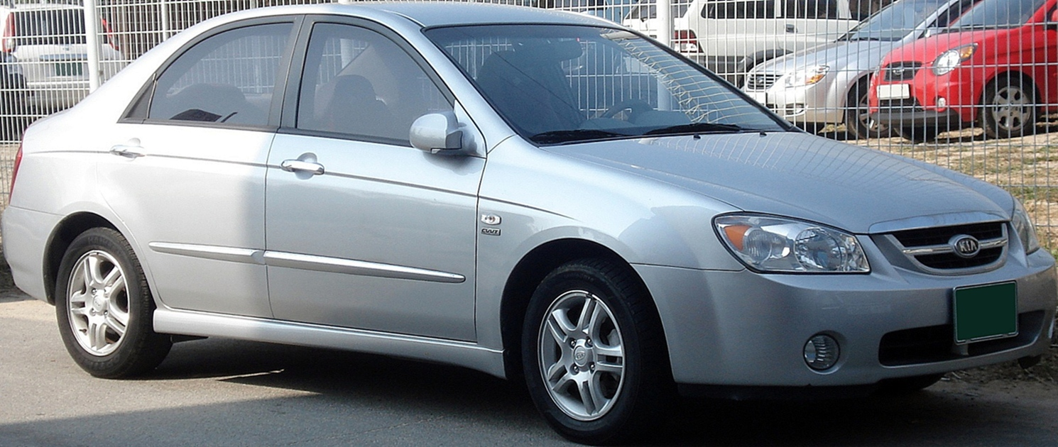 Kia Cerato